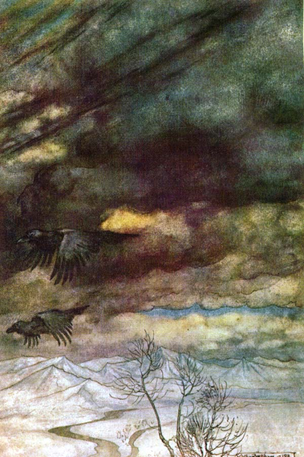 The ravens of Wotan